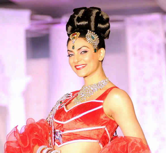 Sushmita Sen on the ramp at Rohhit Verma & Shilpa Marigold's 'IGNITE' fashion show